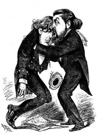 Willie Wilde comforting his brother Oscar Wilde after the failure of his play Vera; or, The Nihilists in the United States.